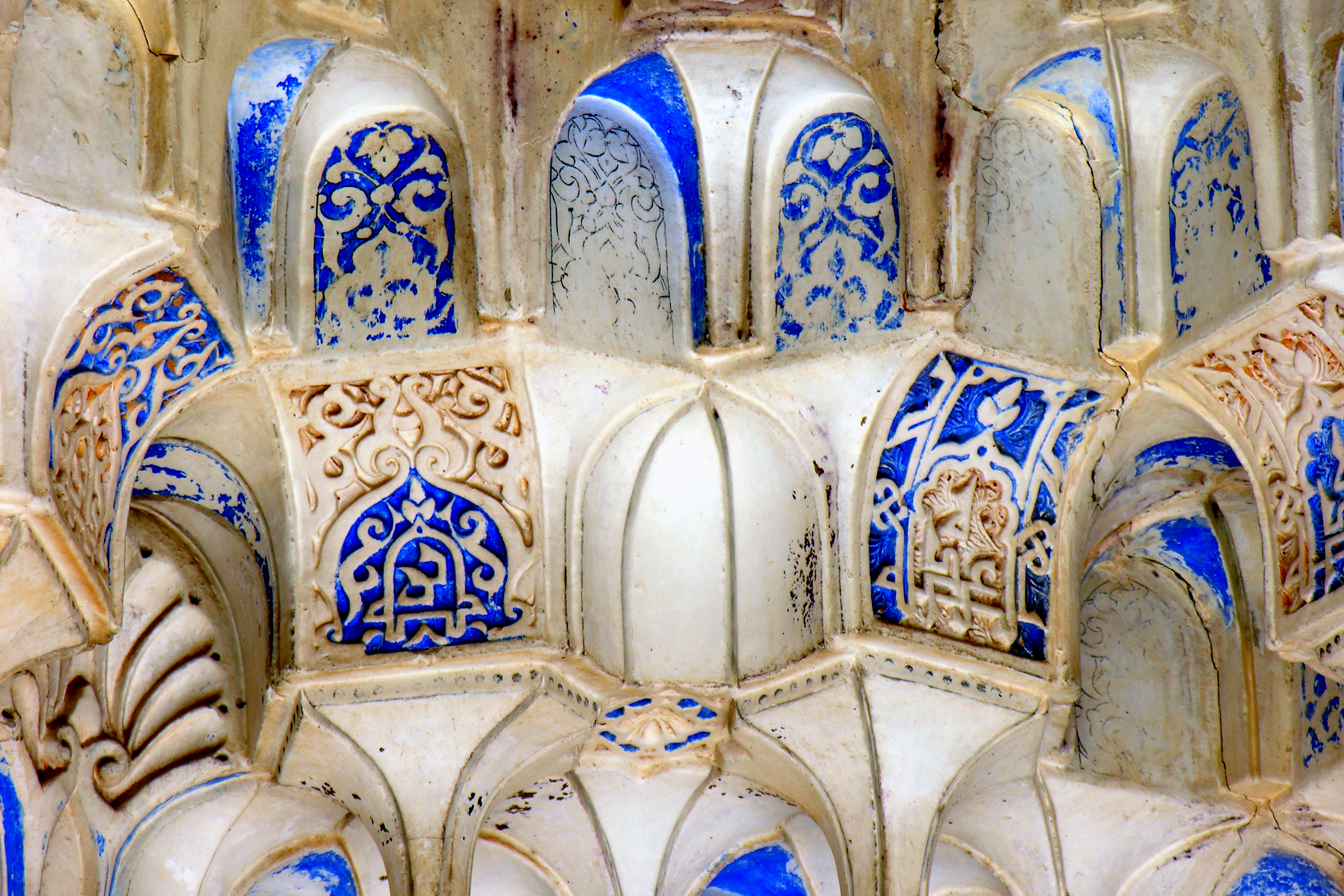 Mocárabes or honeycomb works.